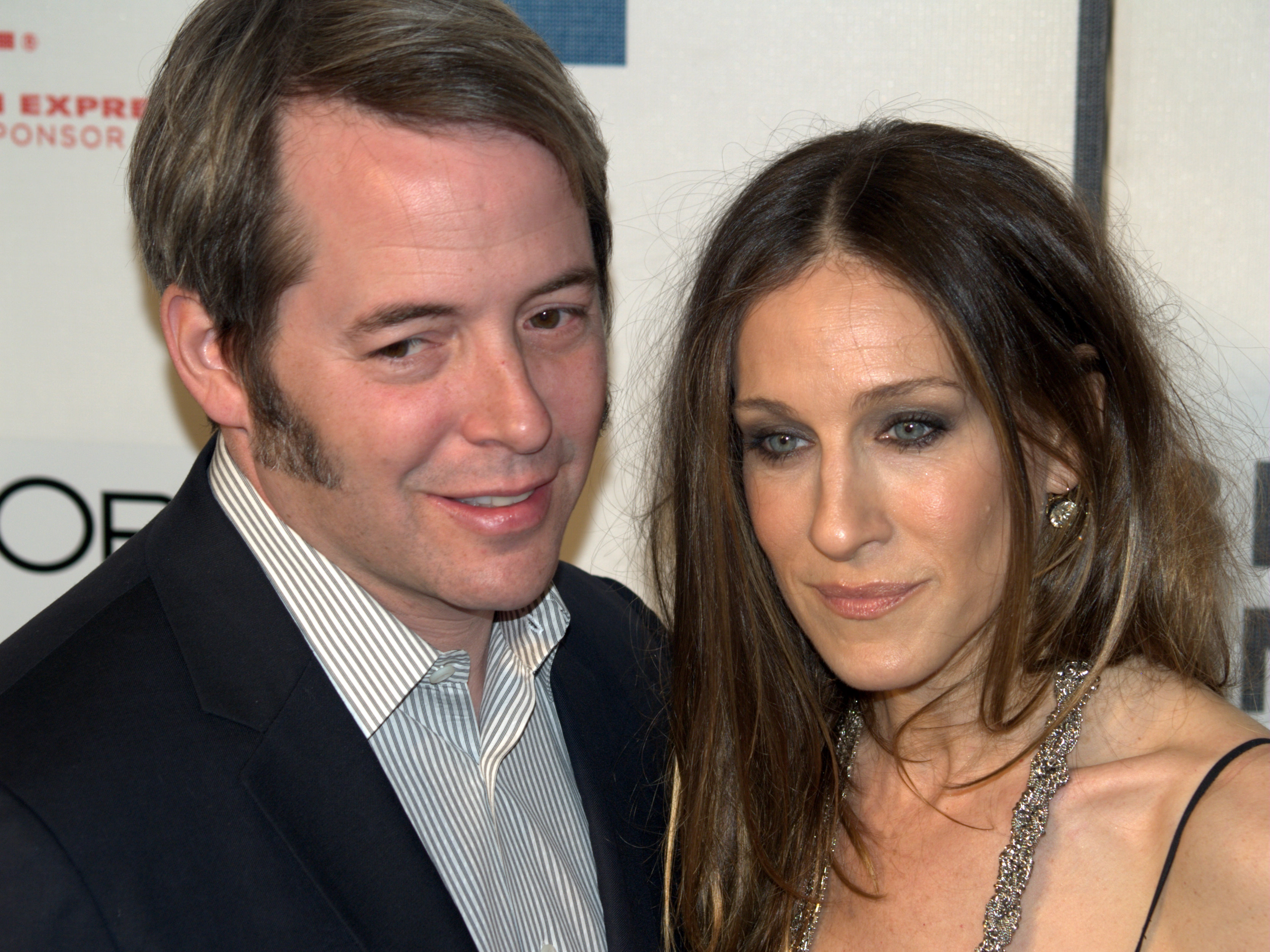 Matthew Broderick and Sarah Jessica Parker at the 2009 Tribeca Film Festival for the premiere of Wonderful World. Photographer's blog post about these photos.